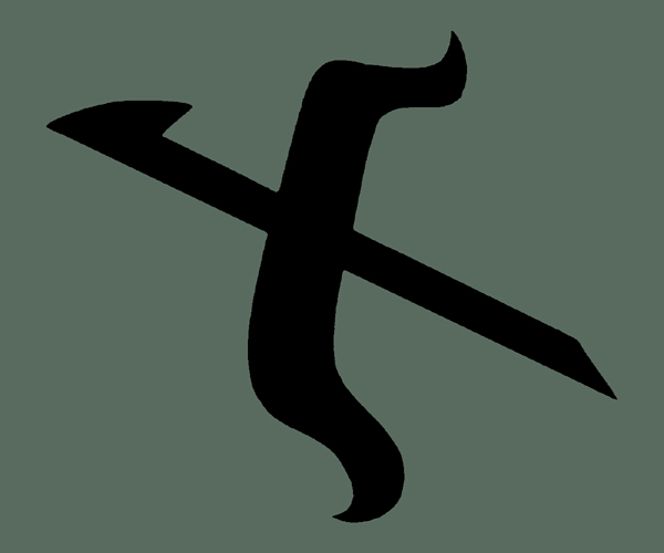 Symbol on the hull of the fictional spaceship Sagittarius. In several occasions was the symbol used for a transition between scenes in the japan anime series "Uchūsen Sagittarius"